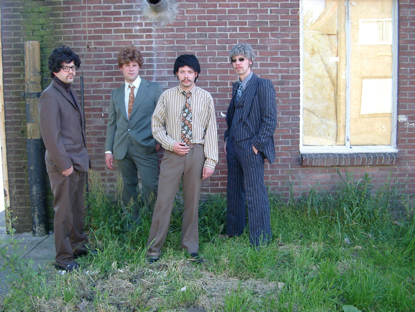 Comiccollective Lamelos